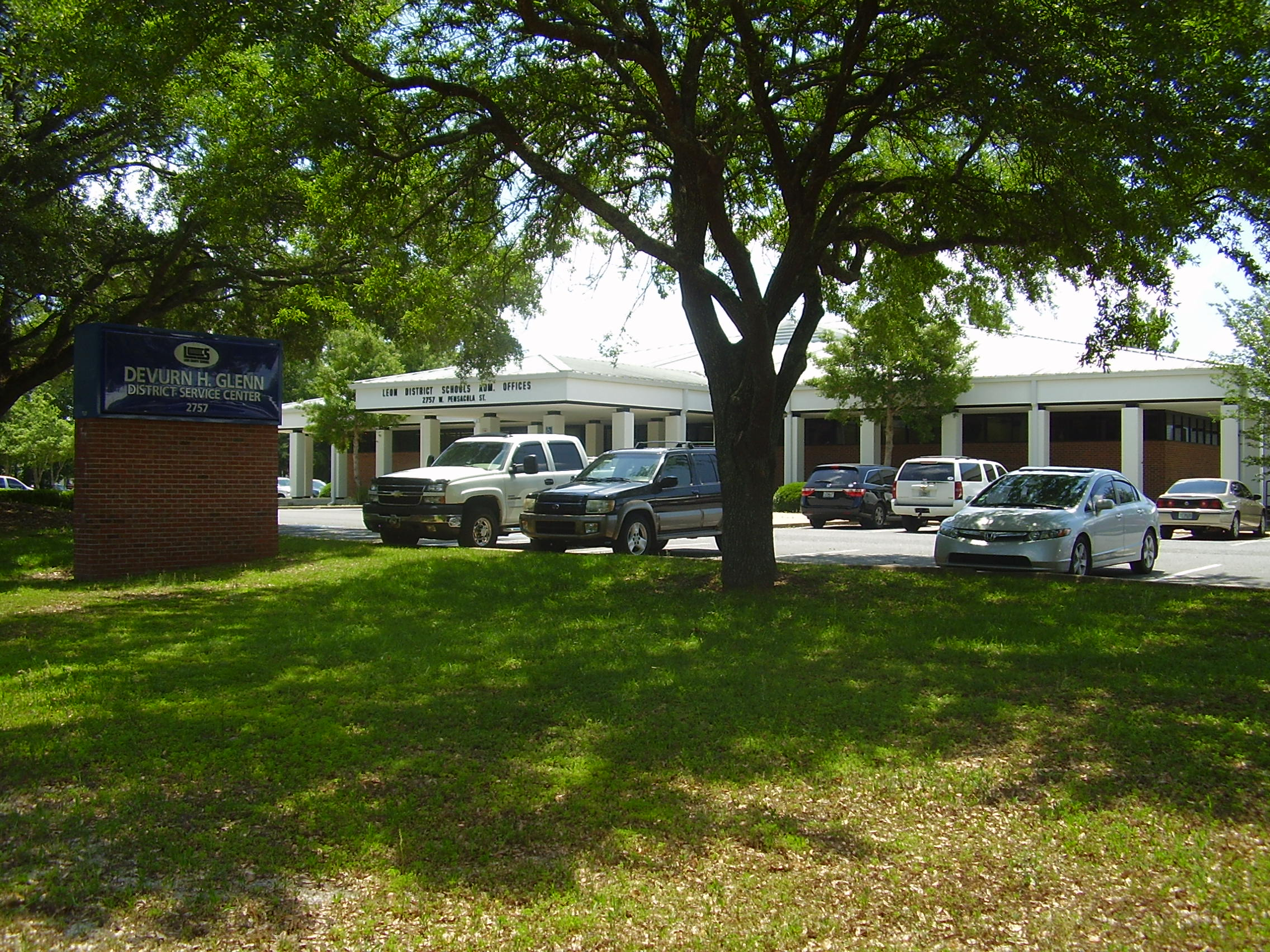 Leon District Schools headquarters - Devurn H. Glenn District Service Center - 2757 West Pensacola Street, Tallahassee, FL